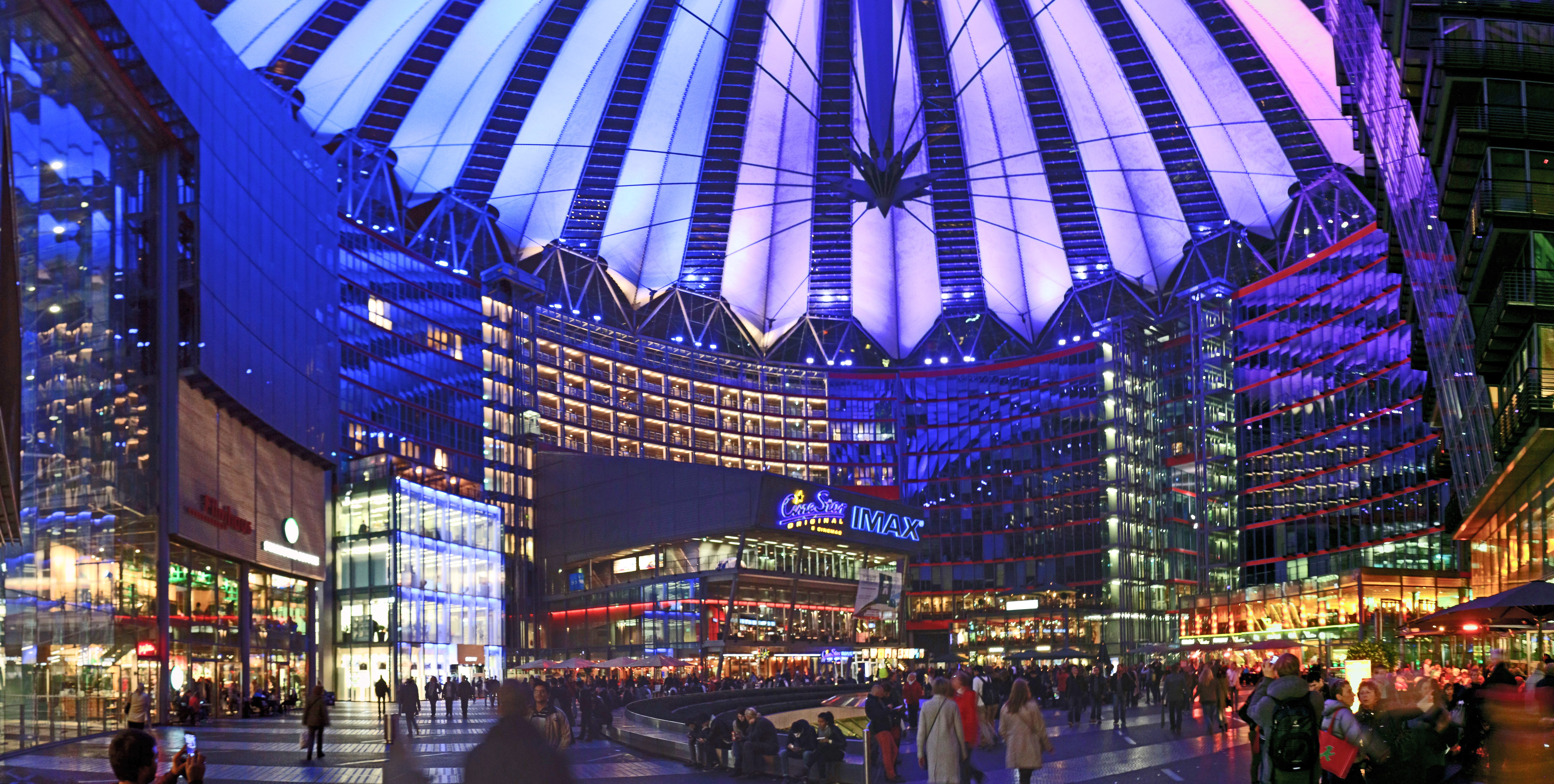 curtilage of sony-center at night - Berlin, Germany